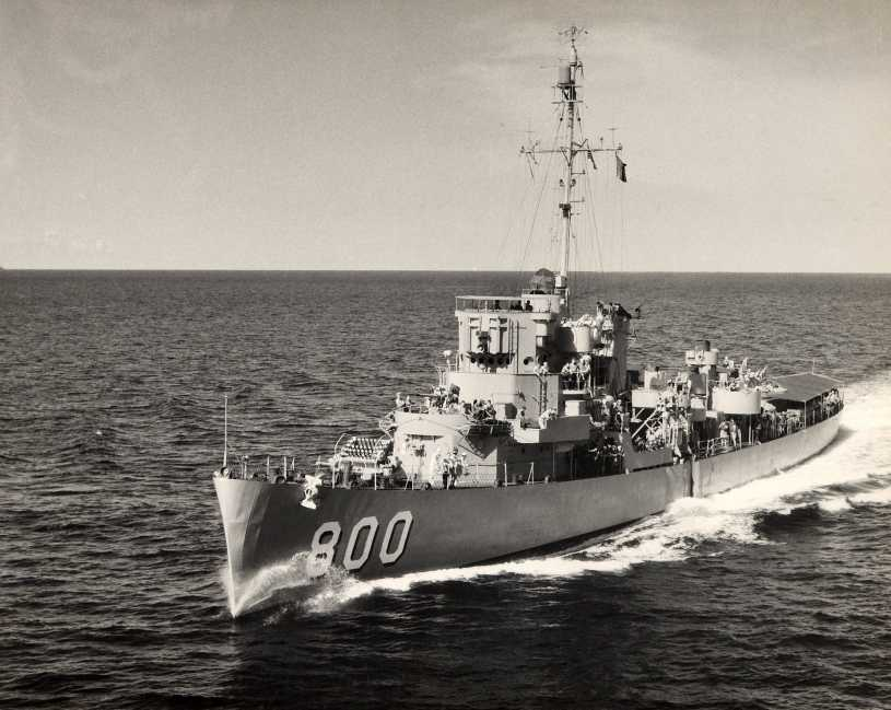 The U.S. Navy destroyer escort USS Jack W. Wilke (DE-800) underway, circa in the early 1950s, when she was part of the Operational Development Force. Note the Hedgehog that replaced the No. 1 76mm gun.